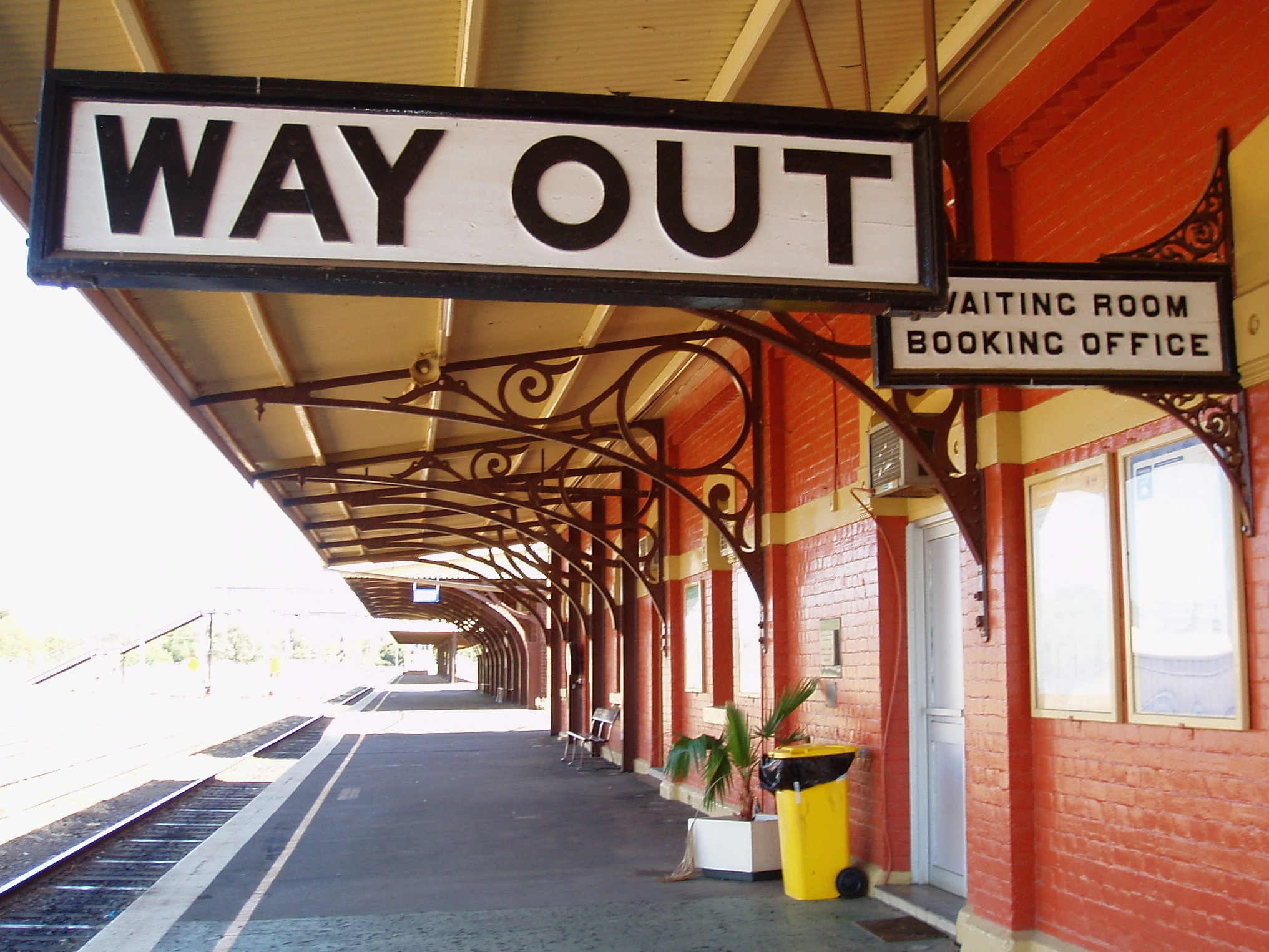 Parkes Railway Station